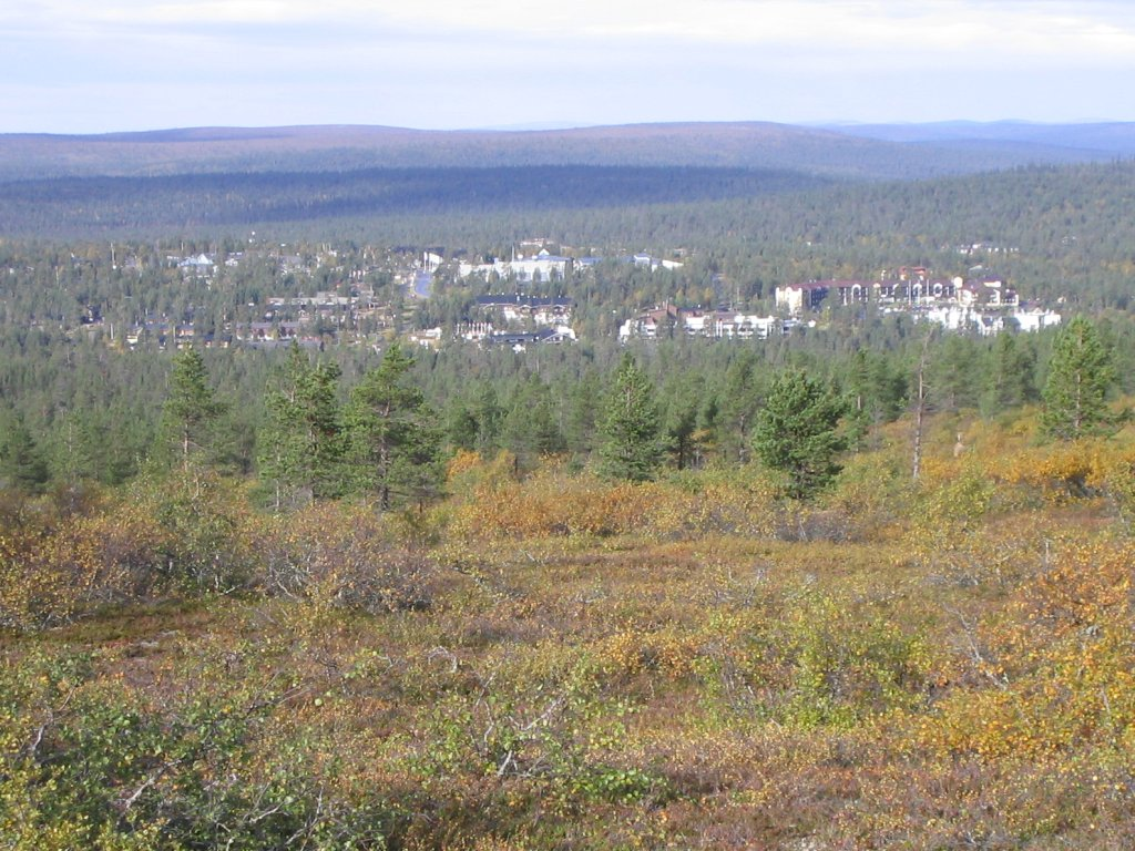 Saariselkä fell village, Inari, Finland.